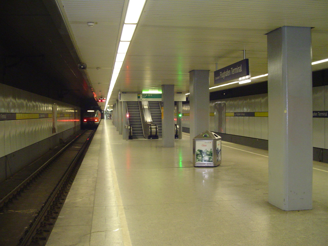 Train station at Düsseldorf Flughafen / Airport Terminal (S-Bahn), Germany